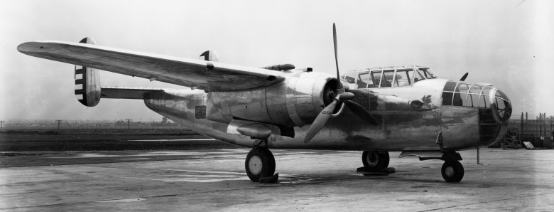 PictionID:46171400 - Catalog:16_007571 - Title:North American NA-40 mfr 20.101-240 - Filename:16_007571.TIF - Image from the Ray Wagner Collection. Ray Wagner was Archivist at the San Diego Air and Space Museum for several years and is an author of several books on aviation --- ---Please Tag these images so that the information can be permanently stored with the digital file.---Repository: San Diego Air and Space Museum